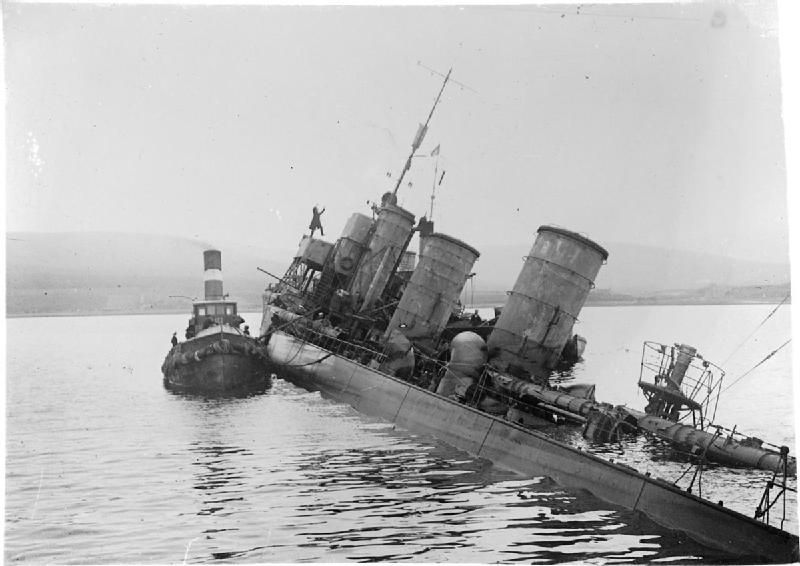 Scuttling of the German Fleet at Scapa Flow: Tug alongside scuttled German destroyer G 102 at Scapa Flow.